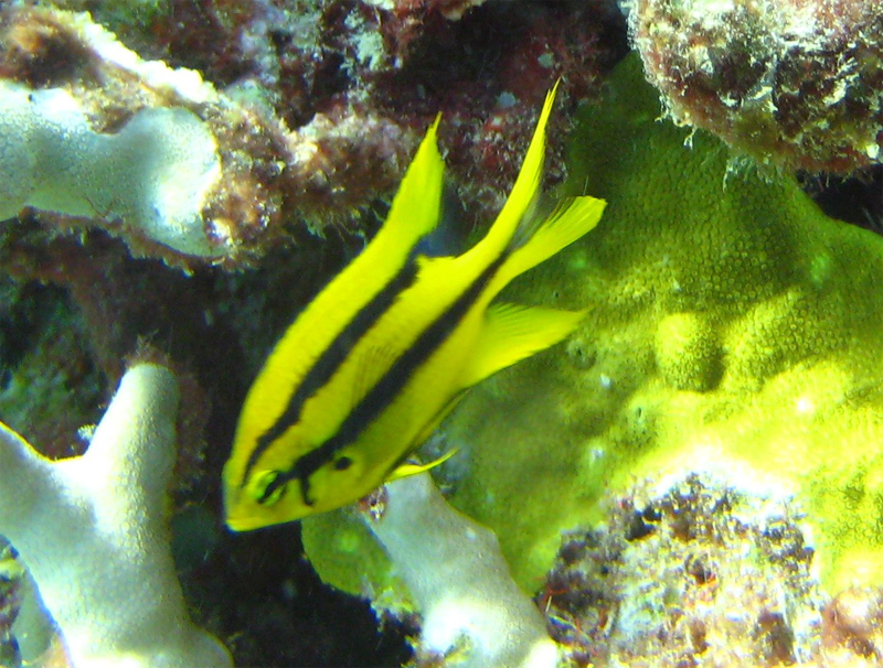 Australia, Great Barrier Reef. Neoglyphidodon nigroris